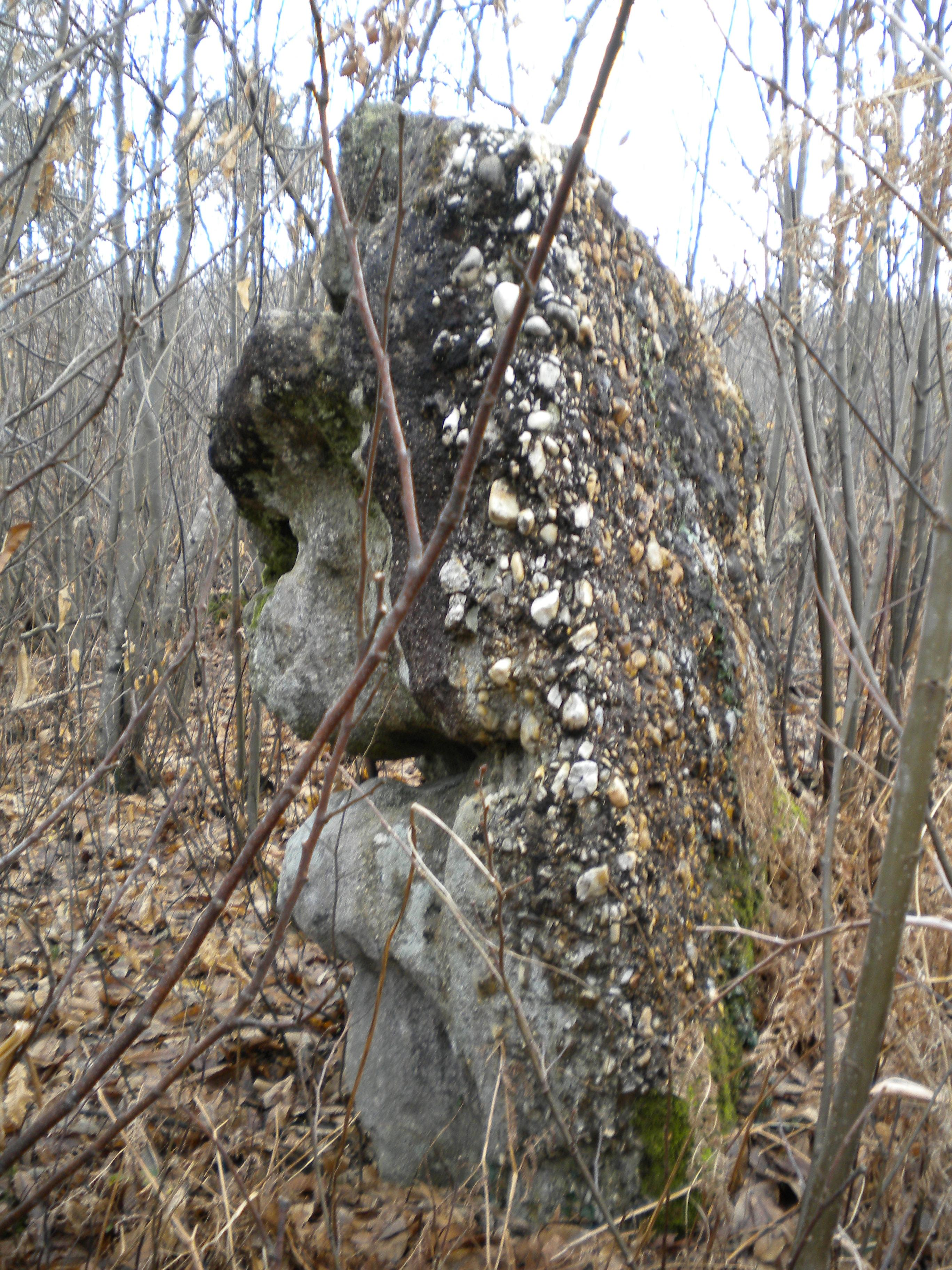 Menhir near Champredon, commune of Saint-Crépin-de-Richemont, Dordogne, France. The stone consists of Paleogene (Eocene?) conglomerate deposited at the northern edge of the Aquitaine Basin.